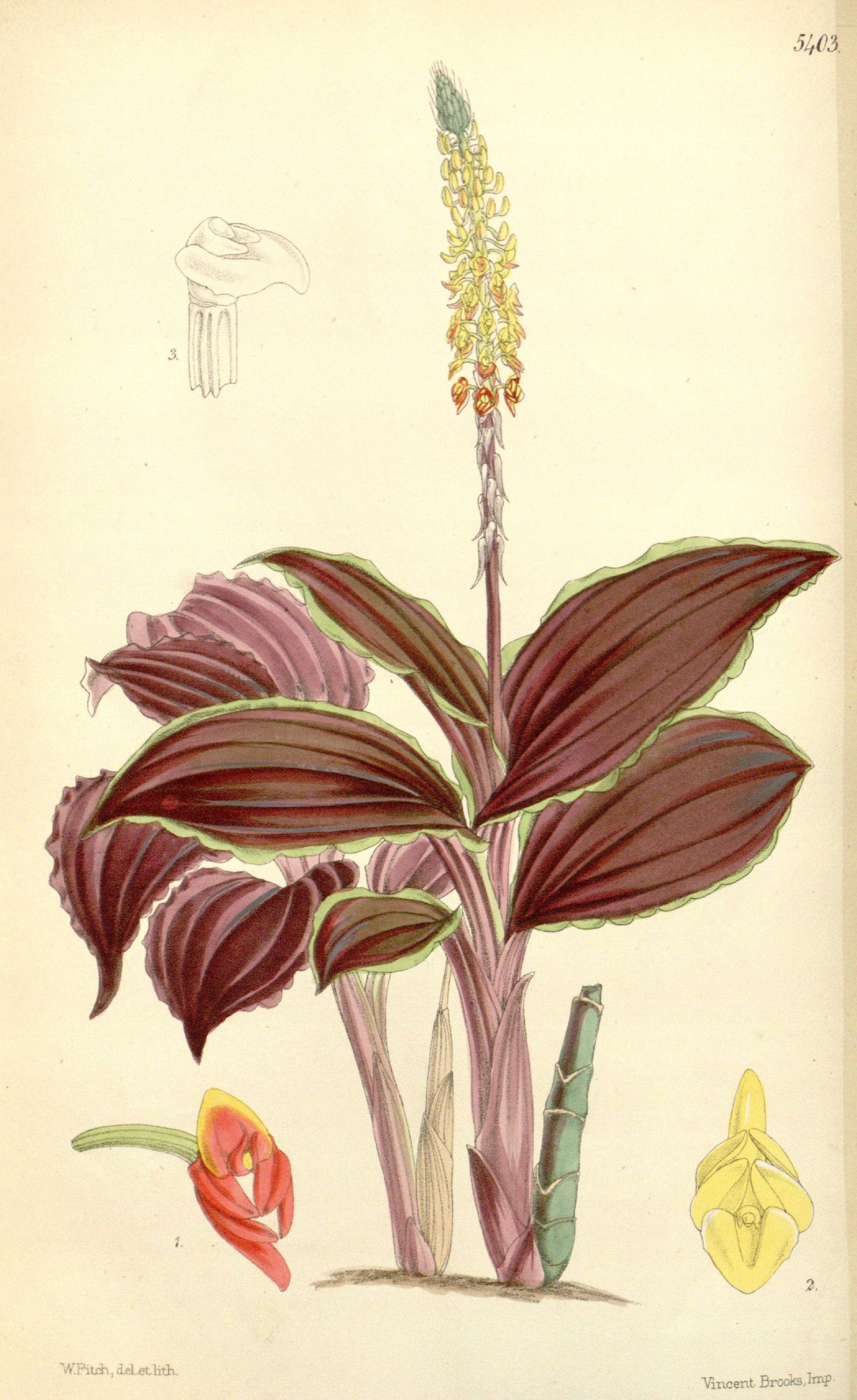 Illustration of Malaxis discolor (as syn. Microstylis discolor)